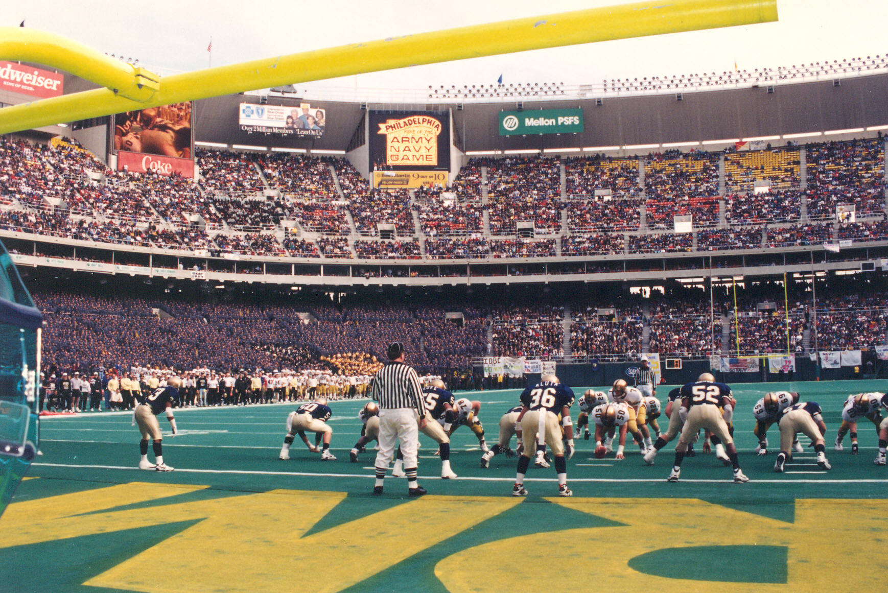 In the 1994 game, played on December 4th, this image shows Army on the goal line, the play resulting in a touchdown, in the eventual Army win over Navy, 22 to 20. (Gordon Sullivan Photograph Collection).